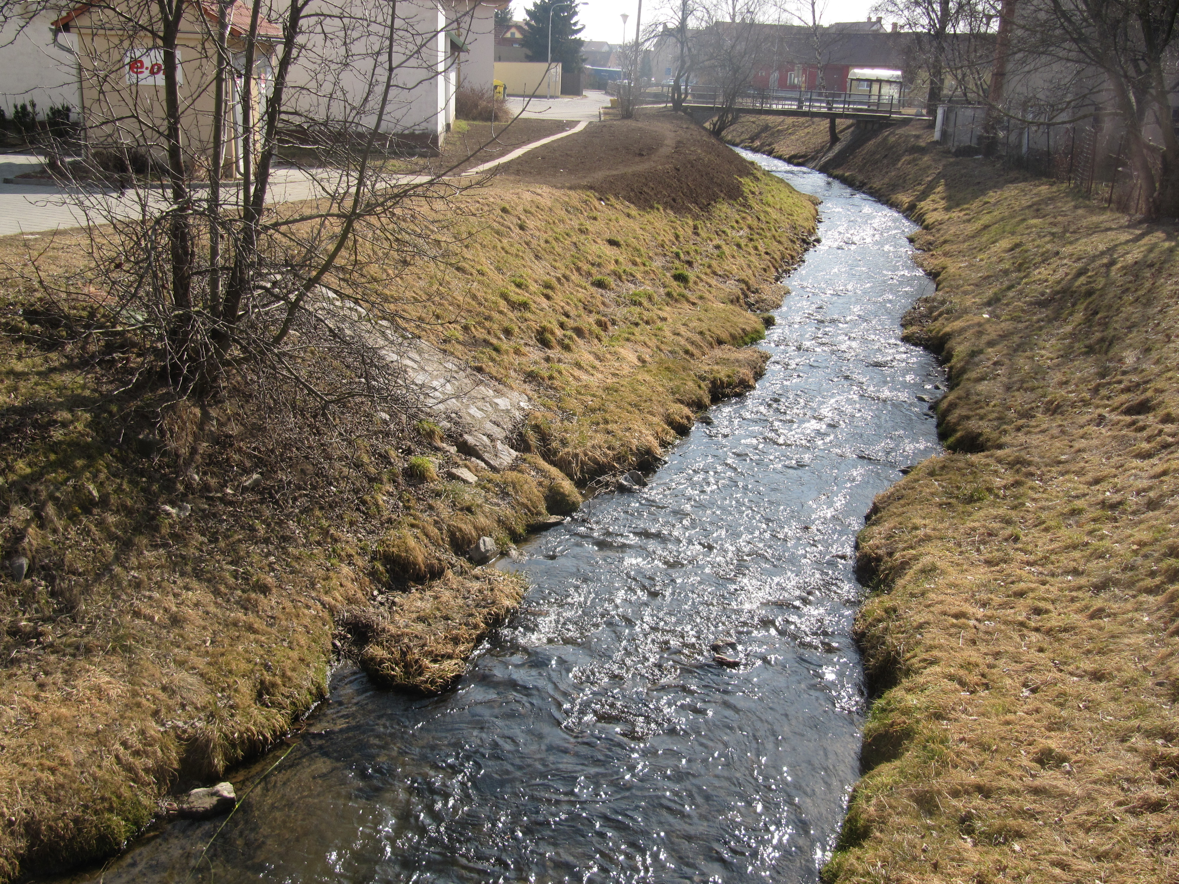 Šlapanice in Brno-Country District, Czech Republic. Říčka-river.